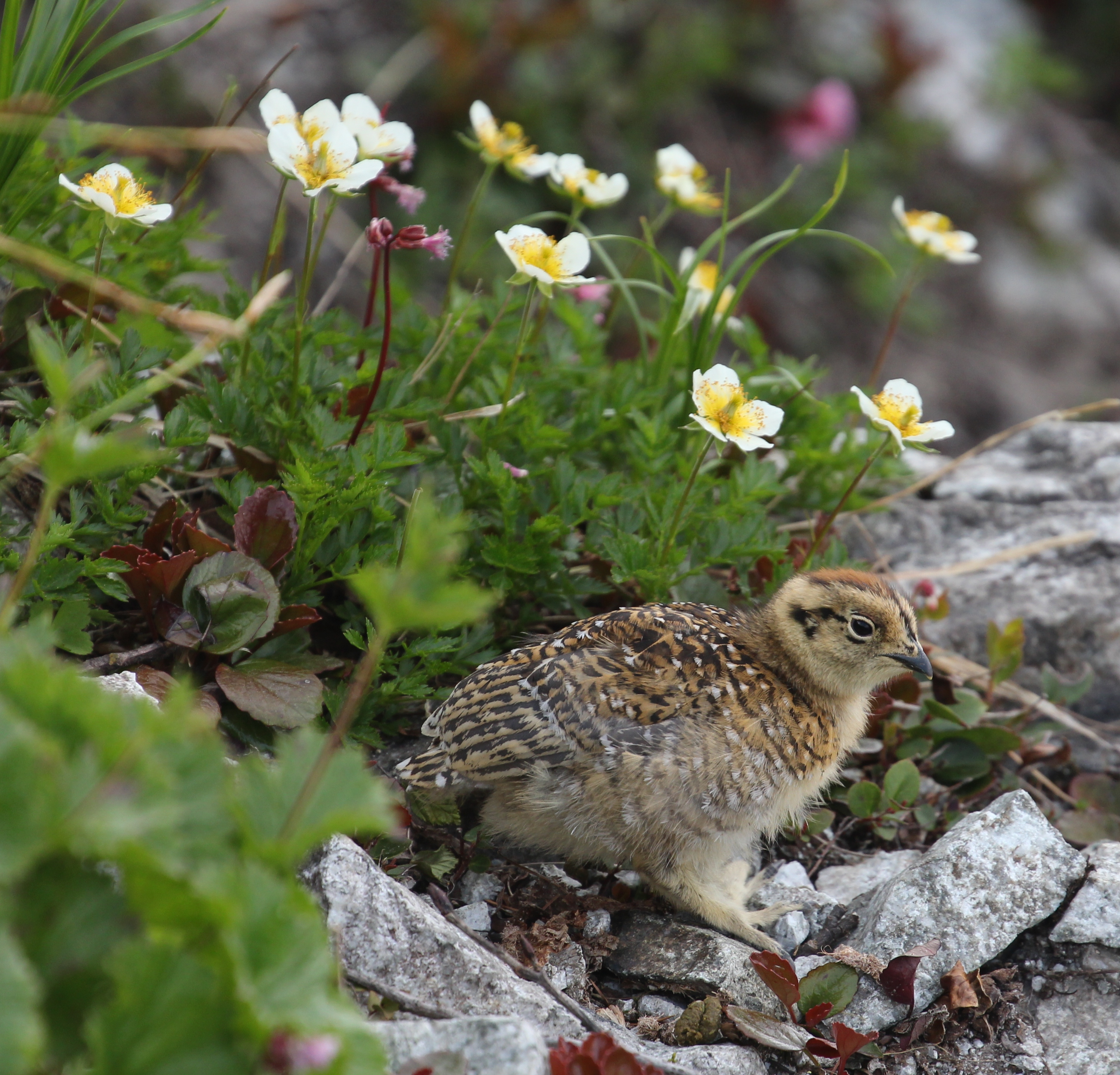 Juvenile of Lagopus muta japonica and Geum pentapetalum in Mount Karamatsu, Ushirotateyama Mountais (Hida Mountains), Hakuba, Nagano Prefecture, Japan. Canon EOS Kiss X7i